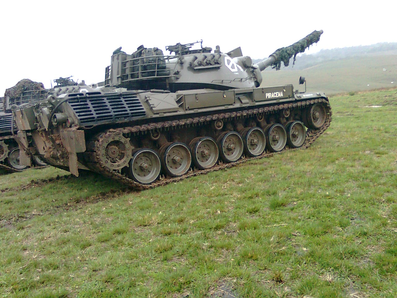 Brazilian MBT Leopard 1A1.